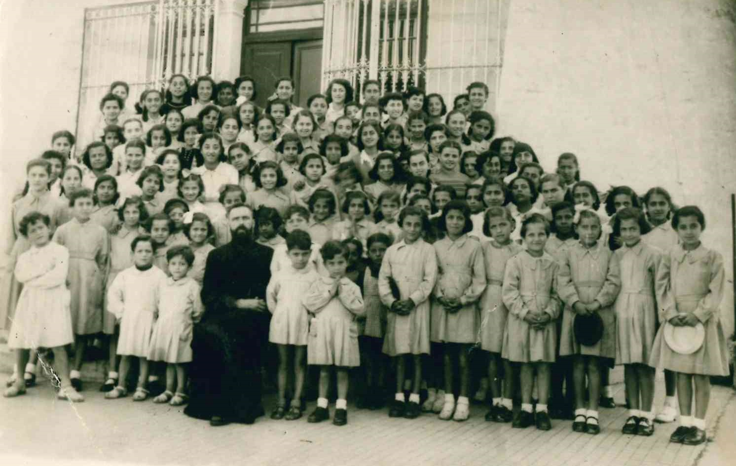 Palestinian Refugees at the Jounieh Jesuit School, Beirut, in the 1940s